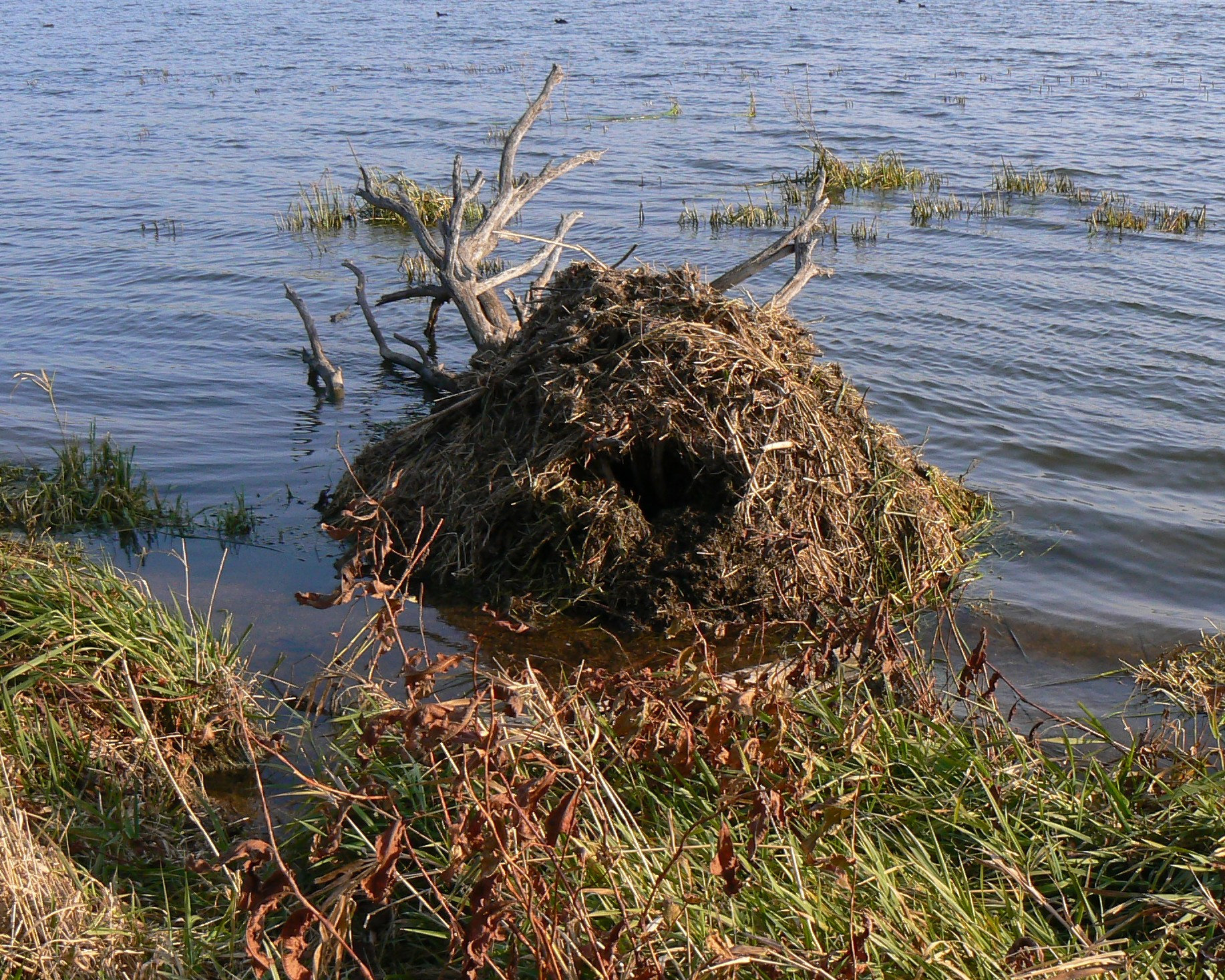 Lodge built by a Muskrat Ondatra zibethicus